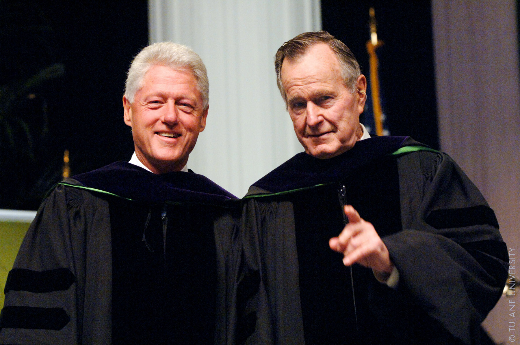 Clinton and Bush 2006